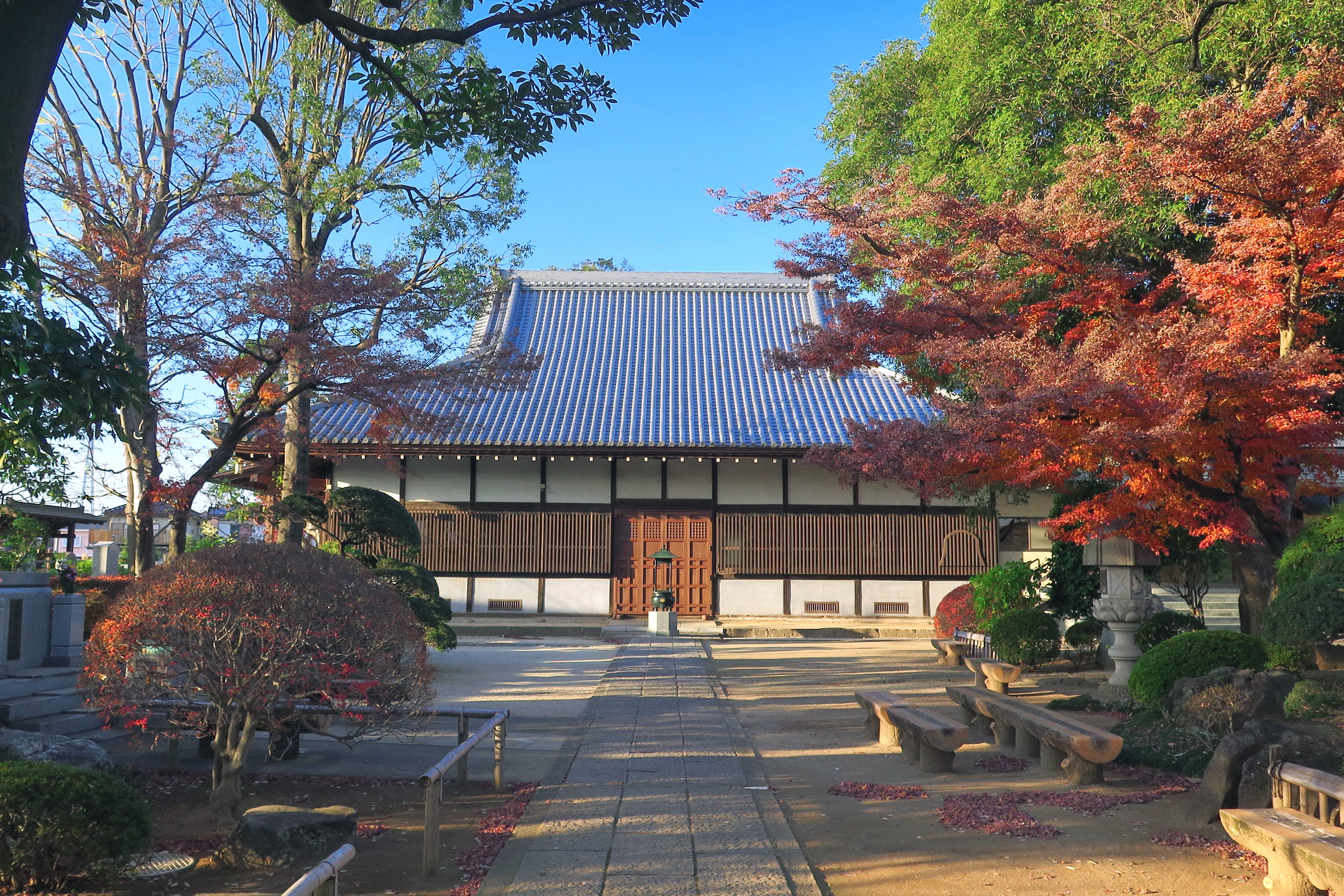 Shofuku-ji Main Hall Ageo-city, Saitama, Japan.